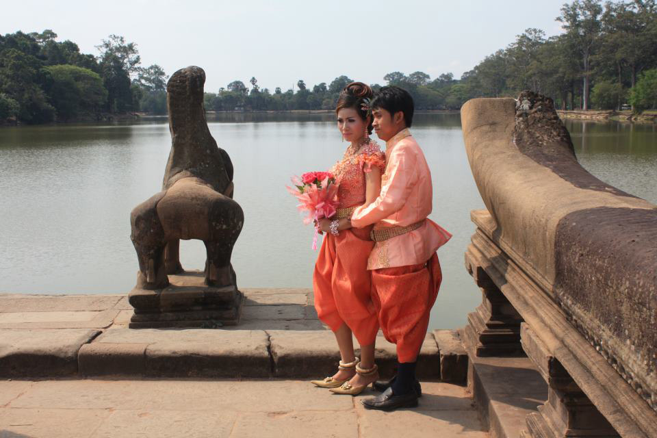 A Cambodian couple in traditional Khmer wedding dress took photograph for pre-wedding photograph at the main causeway across the moat of Angkor Wat, Siem Reap, Cambodia.